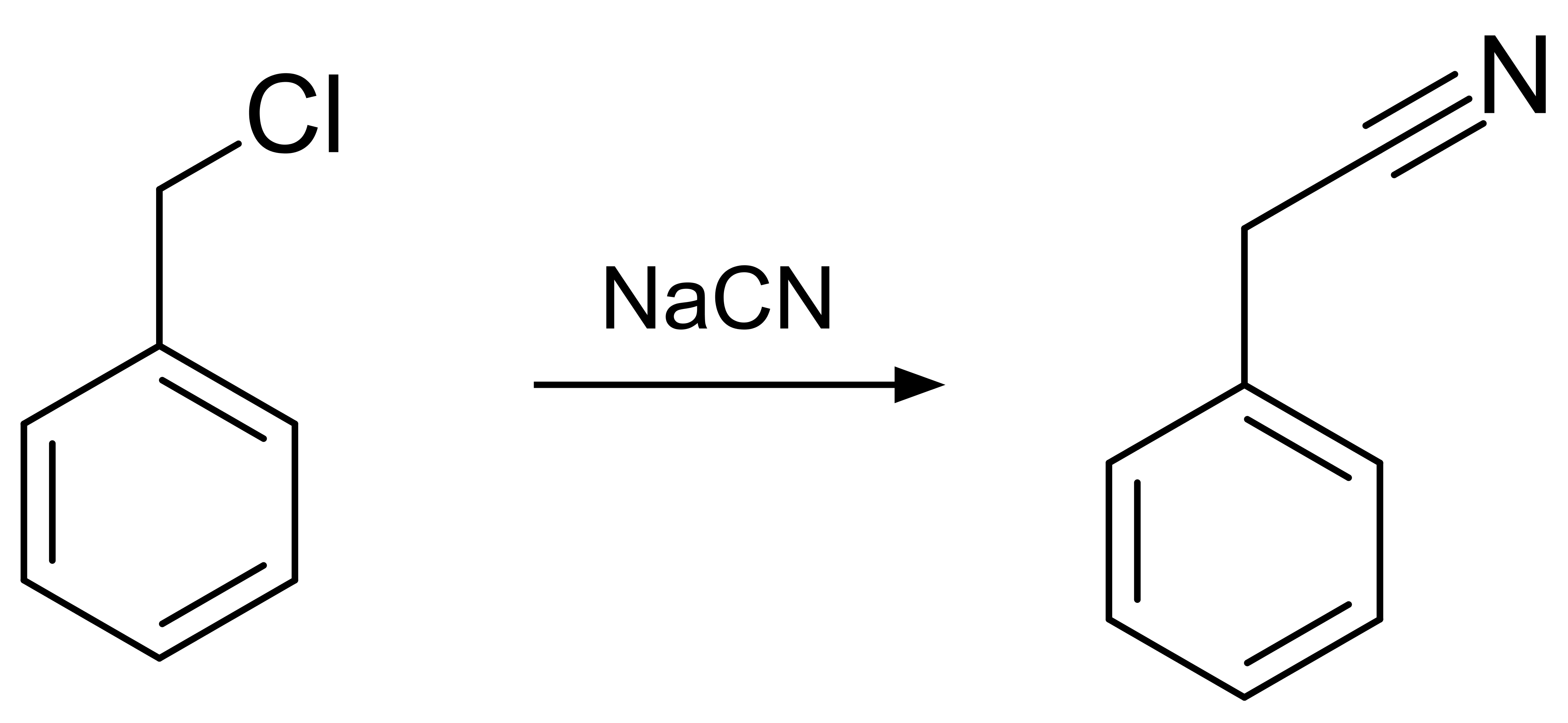 Benzyl cyanide synthesis